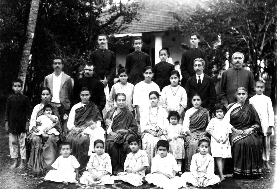 This is the photograph of an extended family belonging to the Pais-Prabhu, a Mangalorean Catholic clan hailing from Falnir in Mangalore. The family in this photo are the descendants of Juze Pais, great-grandson of Salu Pais. Salu and his brother Domingo migrated from Mormugao to Mangalore in about the mid-16th century, and were the sons of one Cojma Pais.